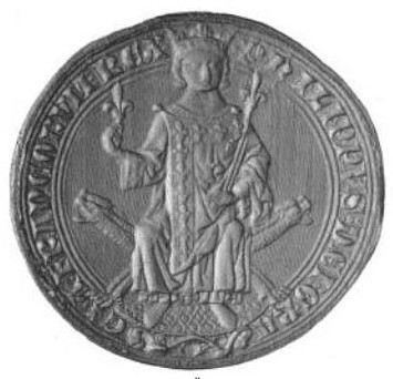 Philip III of France